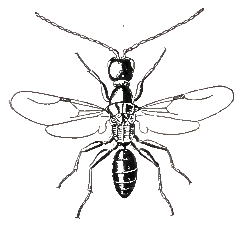 A male Epyris niger